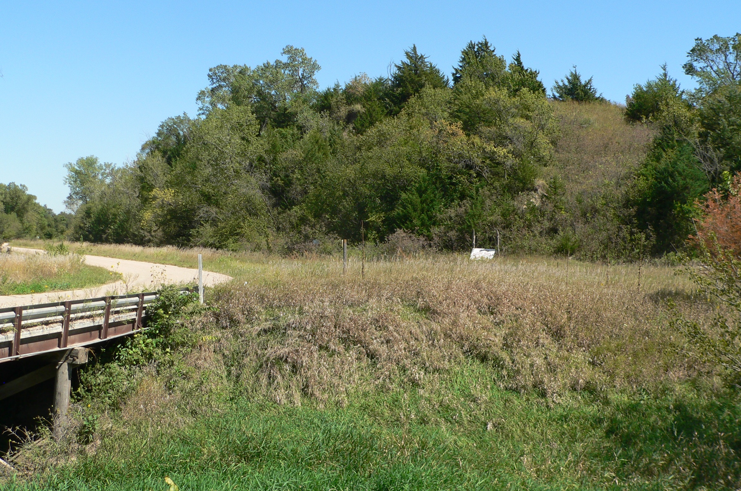 Pa-hur, a.k.a. Guide Rock: a hill on the south side of the Republican River, southeast of Guide Rock, Nebraska. Seen from the west. The bridge in the left foreground crosses Rankin Creek.